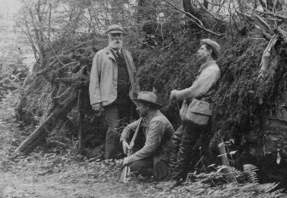 Title: D.G. Elliot, A.K. Fisher, and Robert Ridgway in woods bordering Indian River, Sitka, Alaska, 1899] / Curtis Abstract/medium: 1 photographic print.